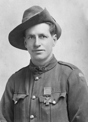 AWM caption : Studio portrait of Private James P Woods VC of the 48th Battalion. He was awarded his VC at Le Verguier, near St Quentin, on 18 September 1918 after capturing a heavily defended German post and subsequently holding it against strong counter attacks.